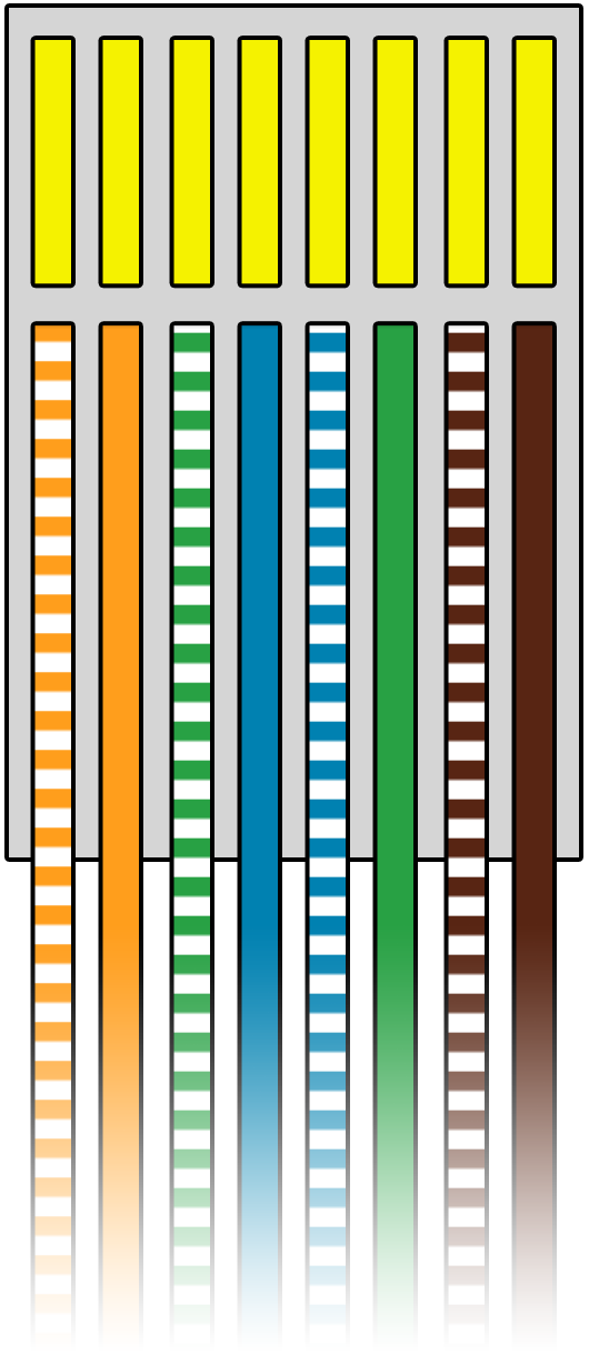 straight cable, non crossover